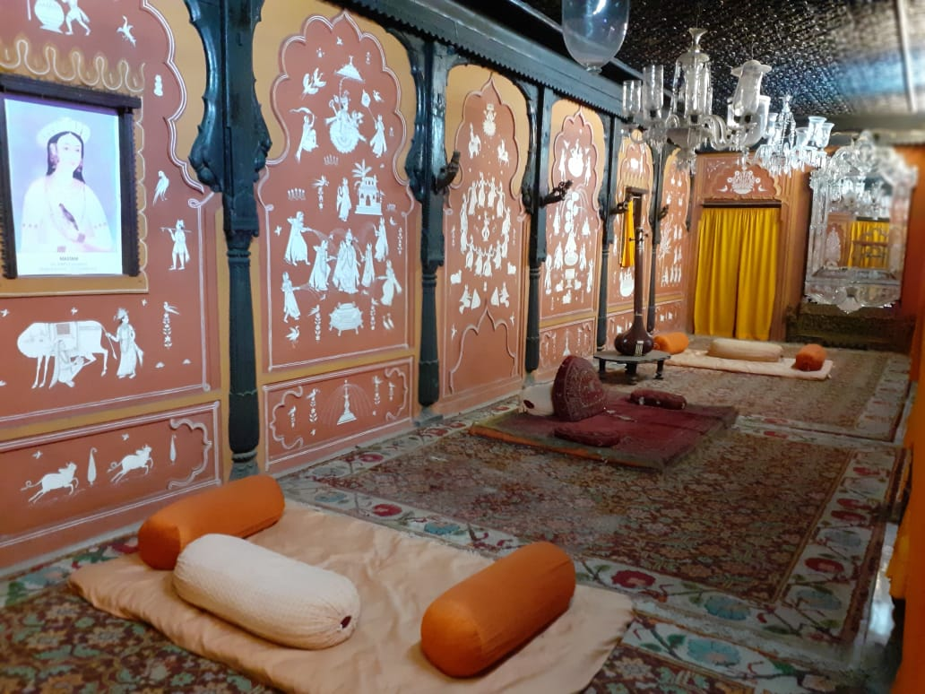 Mastani Mahal restored at Raja Dinkar Kelkar Museum,Pune